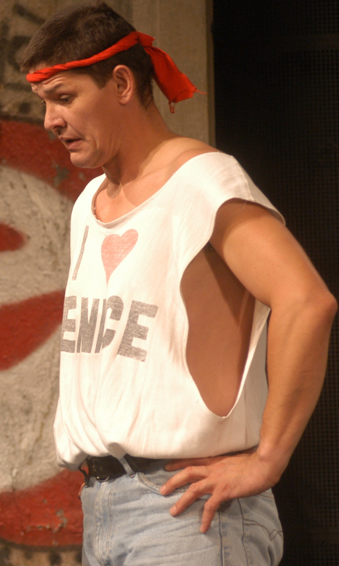 Martin Havelka